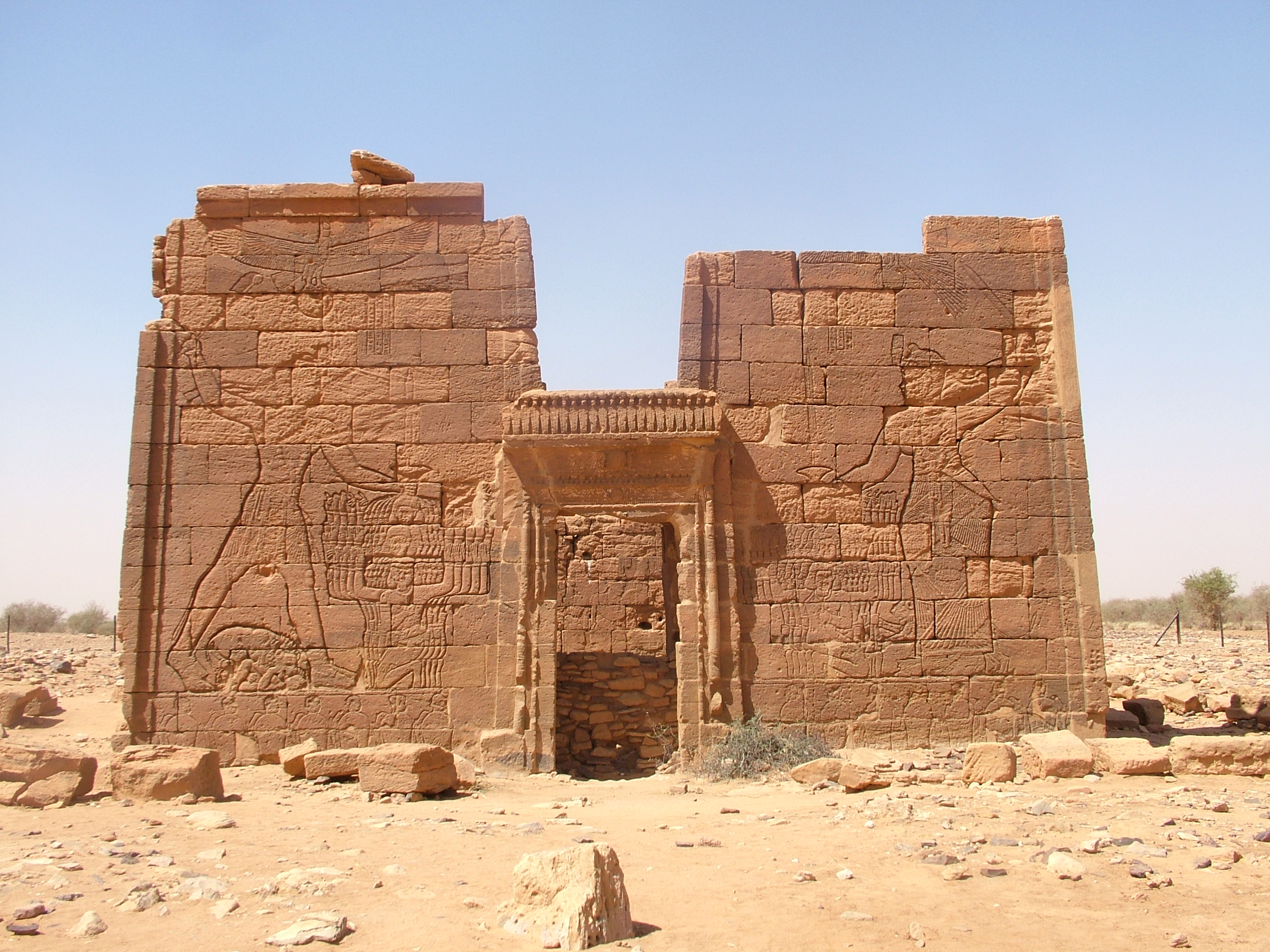 Apedemak temple in Naqa front